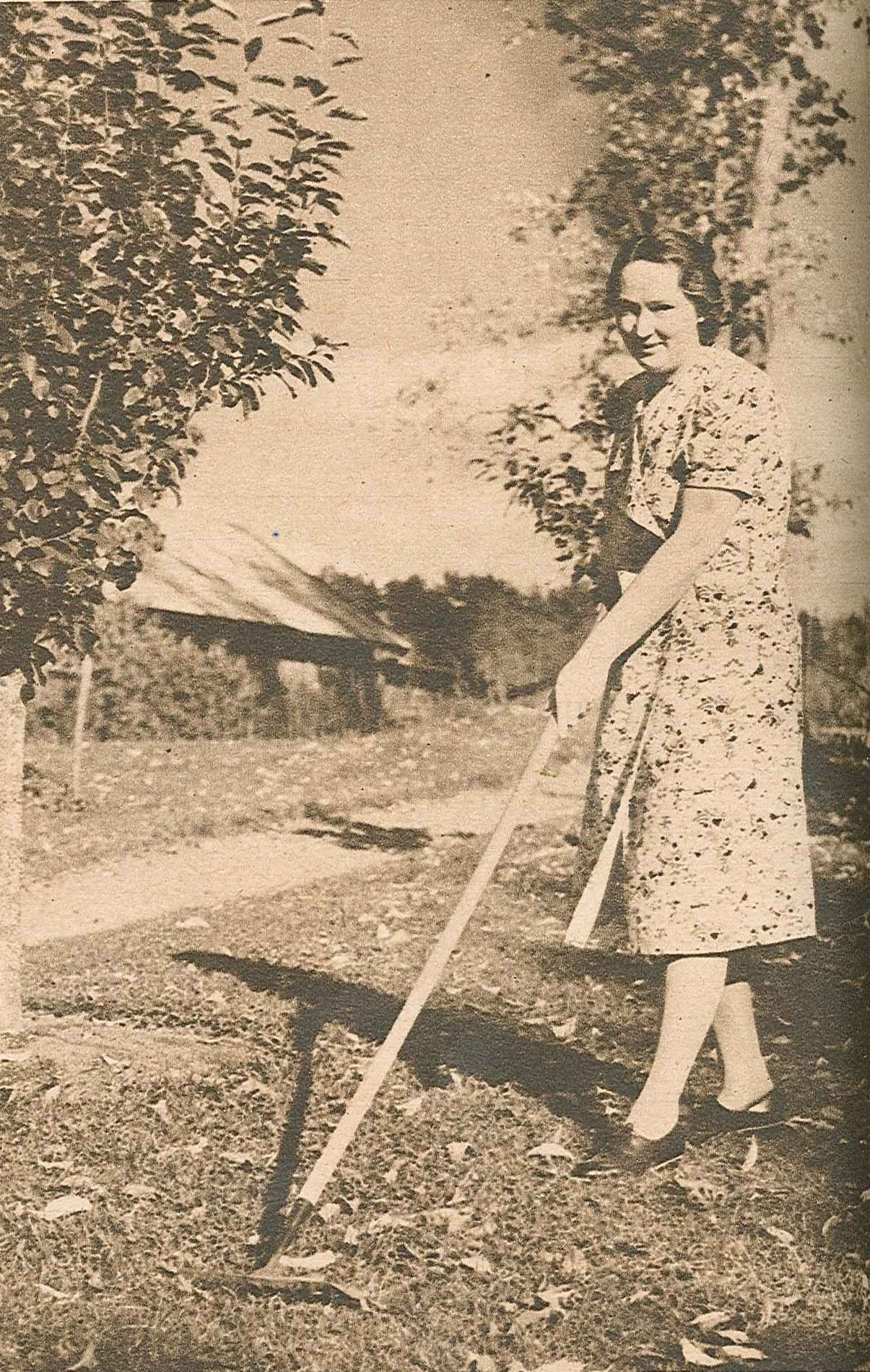 Irja Browallius (1901-1968), Swedish author and teacher, seen here in the garden of her country house in Närke.